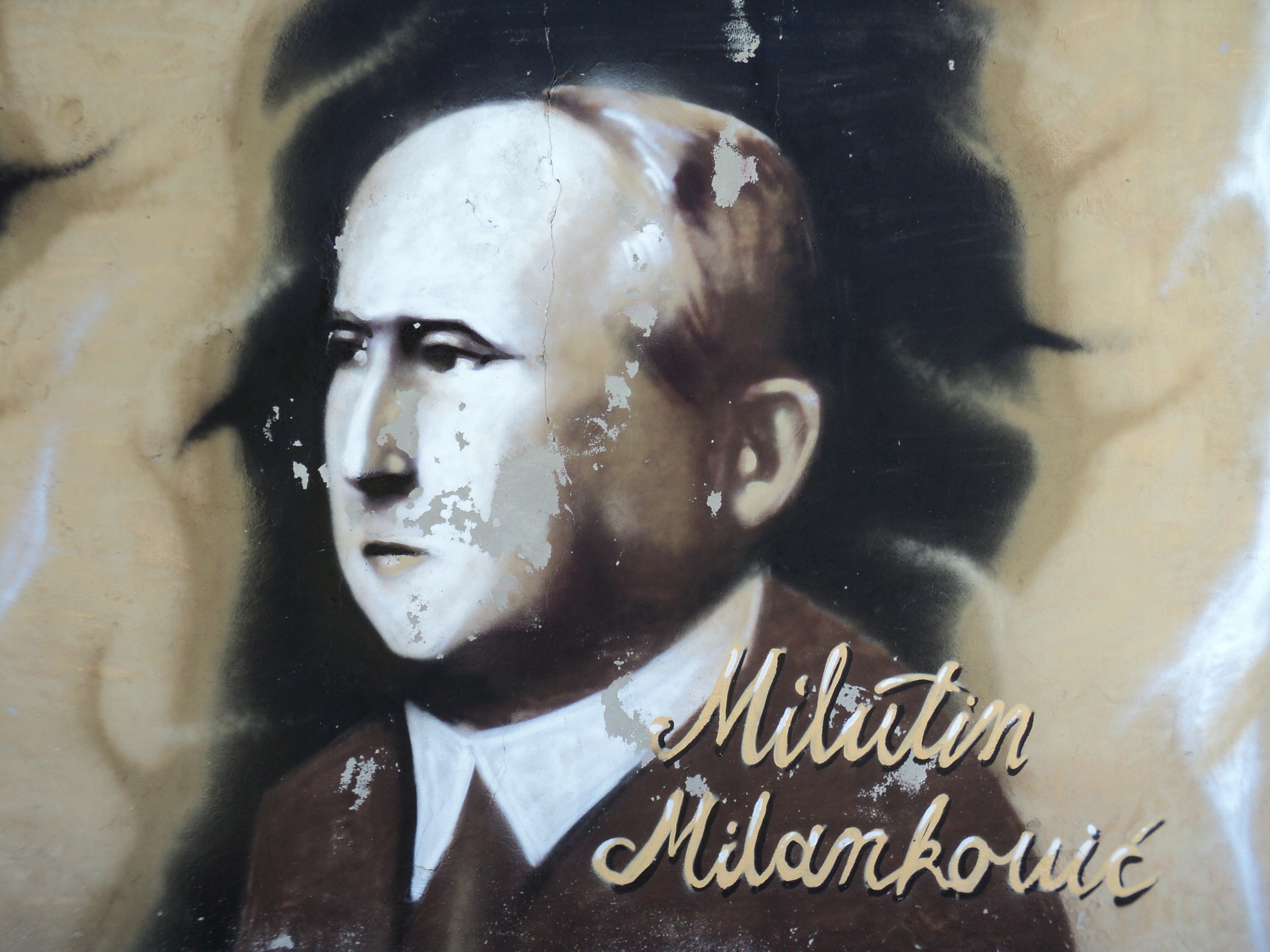 Graffiti portrait of Milutin Milanković, Osijek.